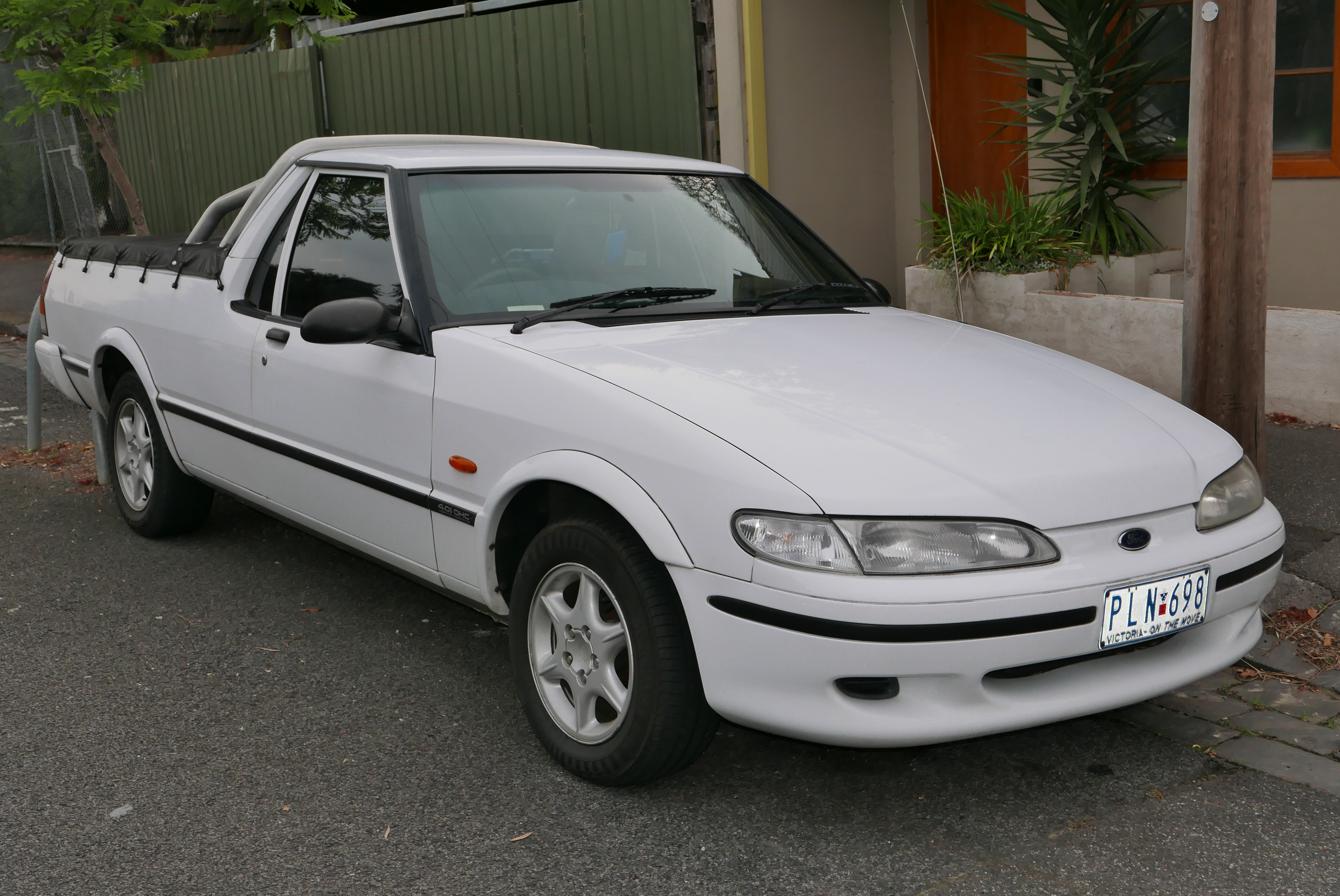 1998 Ford Falcon (XH II) Longreach GLi utility. Photographed in Flemington, Victoria, Australia. Vehicle registration enquiry results Jurisdiction Victoria Registration PLN698 Chassis code 6FPAAAJLCMWG12830 Engine code JLCMWG12830 Compliance date 1998-11 Year of manufacture 1999 (not a typo)